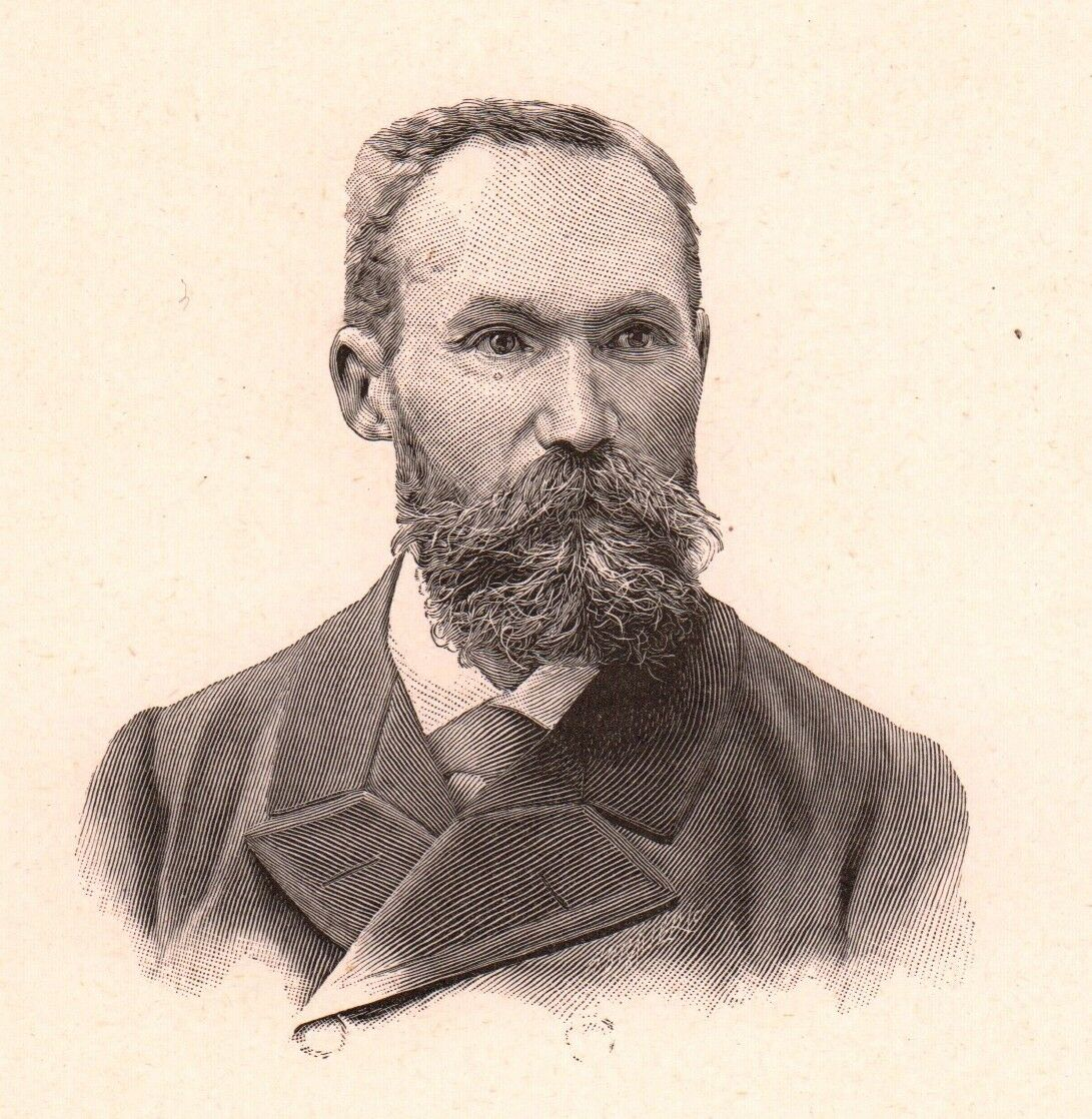 French poet and playwright Émile Blémont (1839-1927)